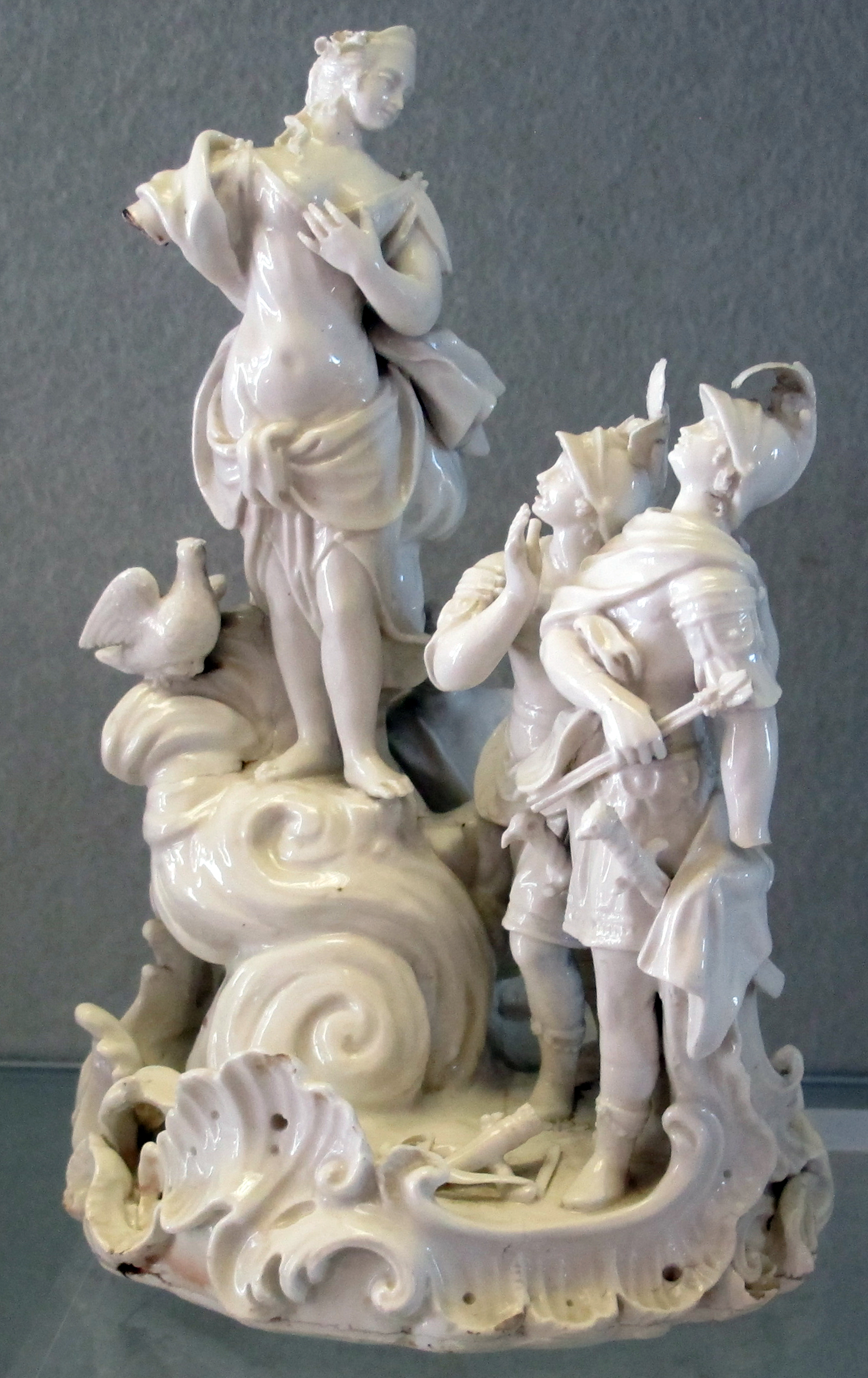 Porcelain Museum (Florence) - Porcelain of Italy